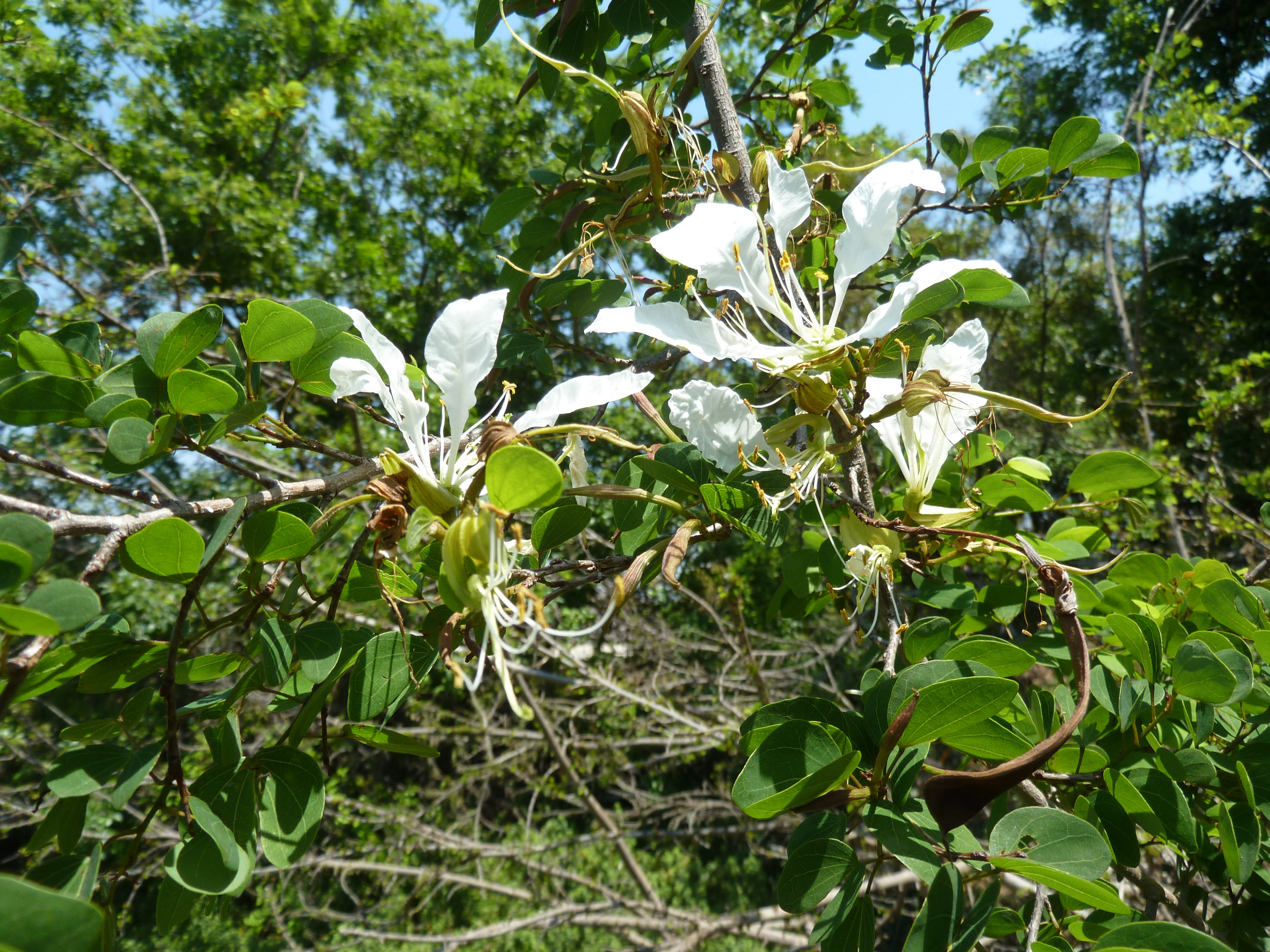 Kei white bauhinia in the Pretoria National Botanical Garden